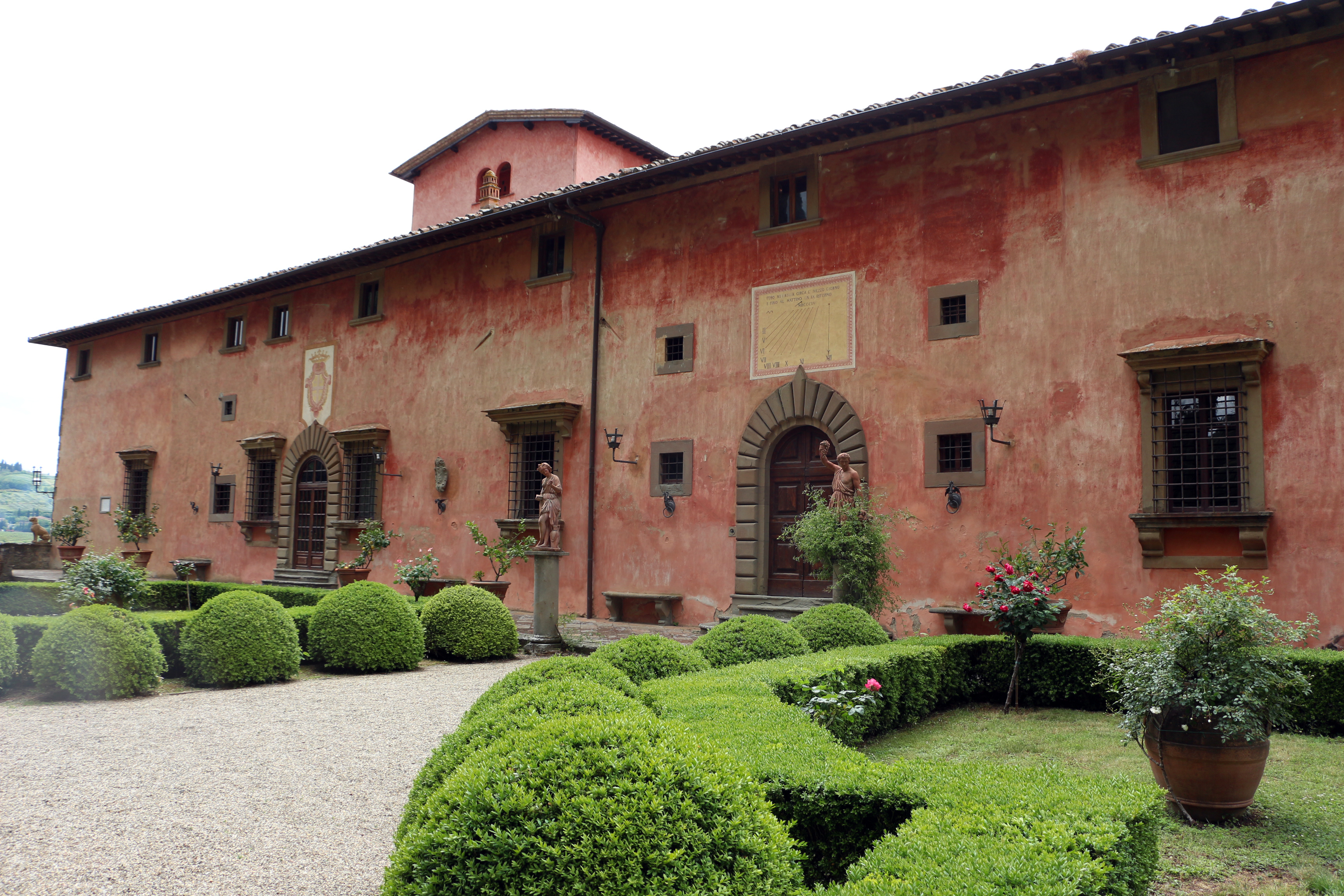 Villa di Vignamaggio